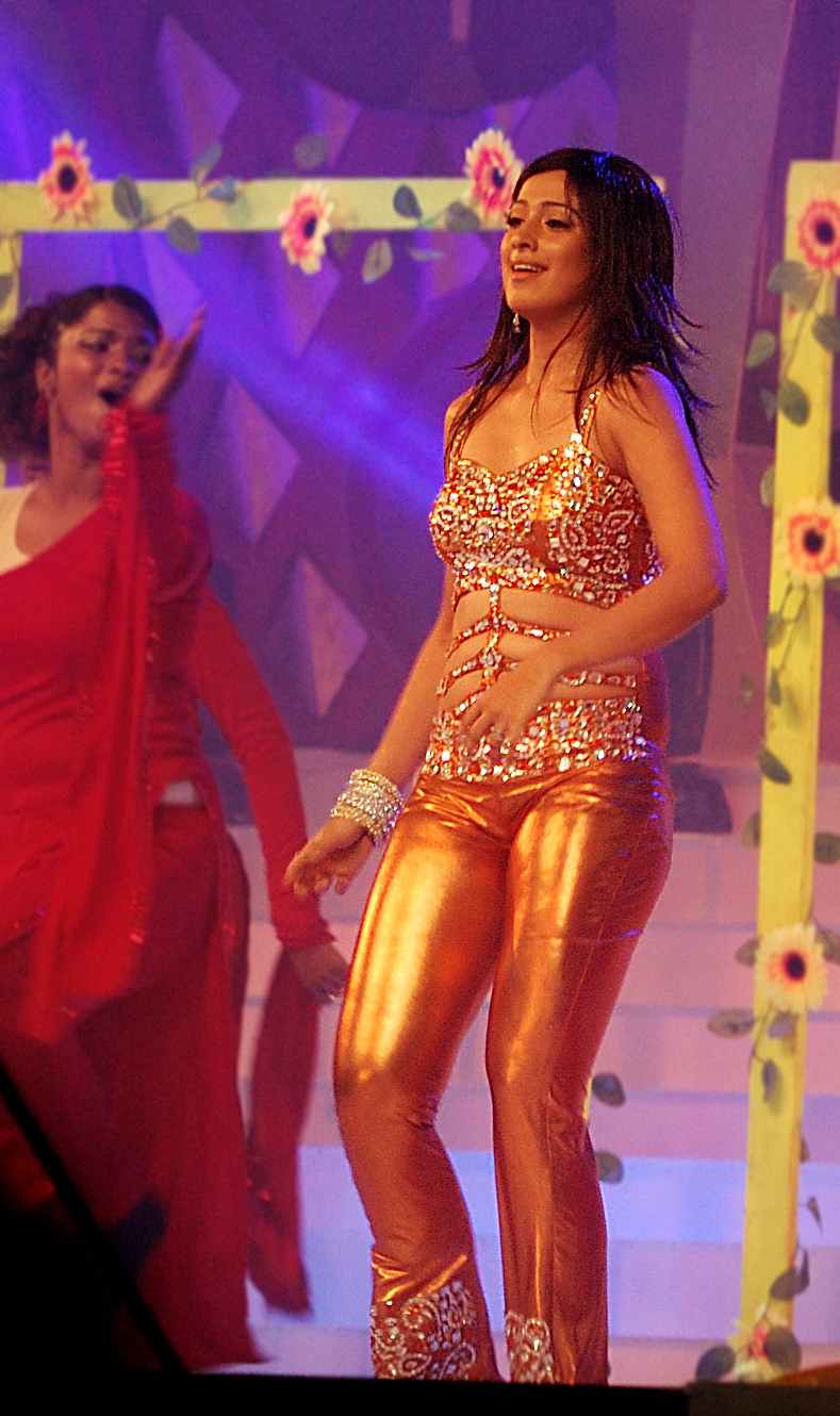 South Indian actress Laxmi Rai